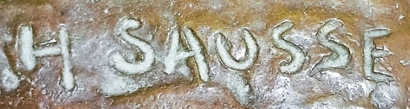 Signature of Honoré Sausse